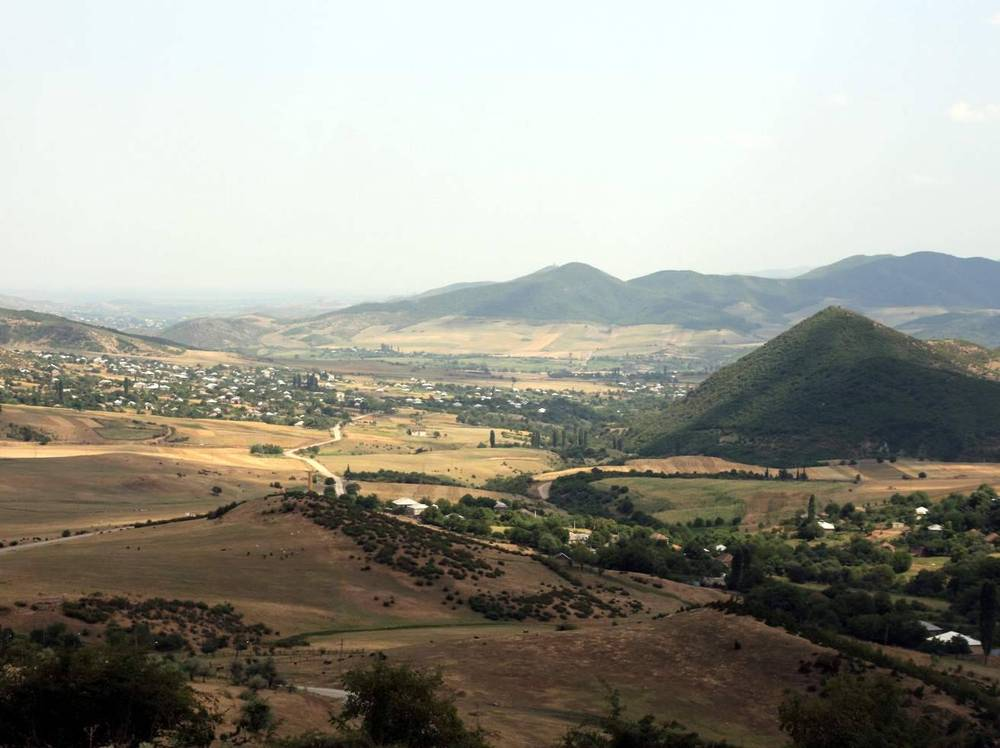 View on the villages of Dzveli Kveshi (left) and Kveshi